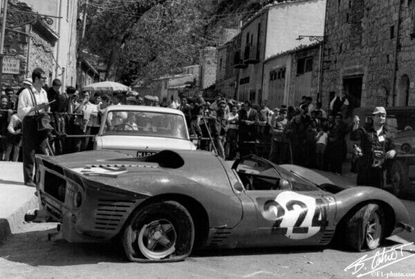 Entry #224 at Targa Florio on 14 May 1967 was the 1966 Ferrari 330 P3/P4 s/n 0846, driven by Nino Vaccarelli and Ludovico Scarfiotti until it ended in an accident at Collesano. Nino Vaccarella (who was from Palermo) hit the curb on the second lap, near the Collesano curva.[1]